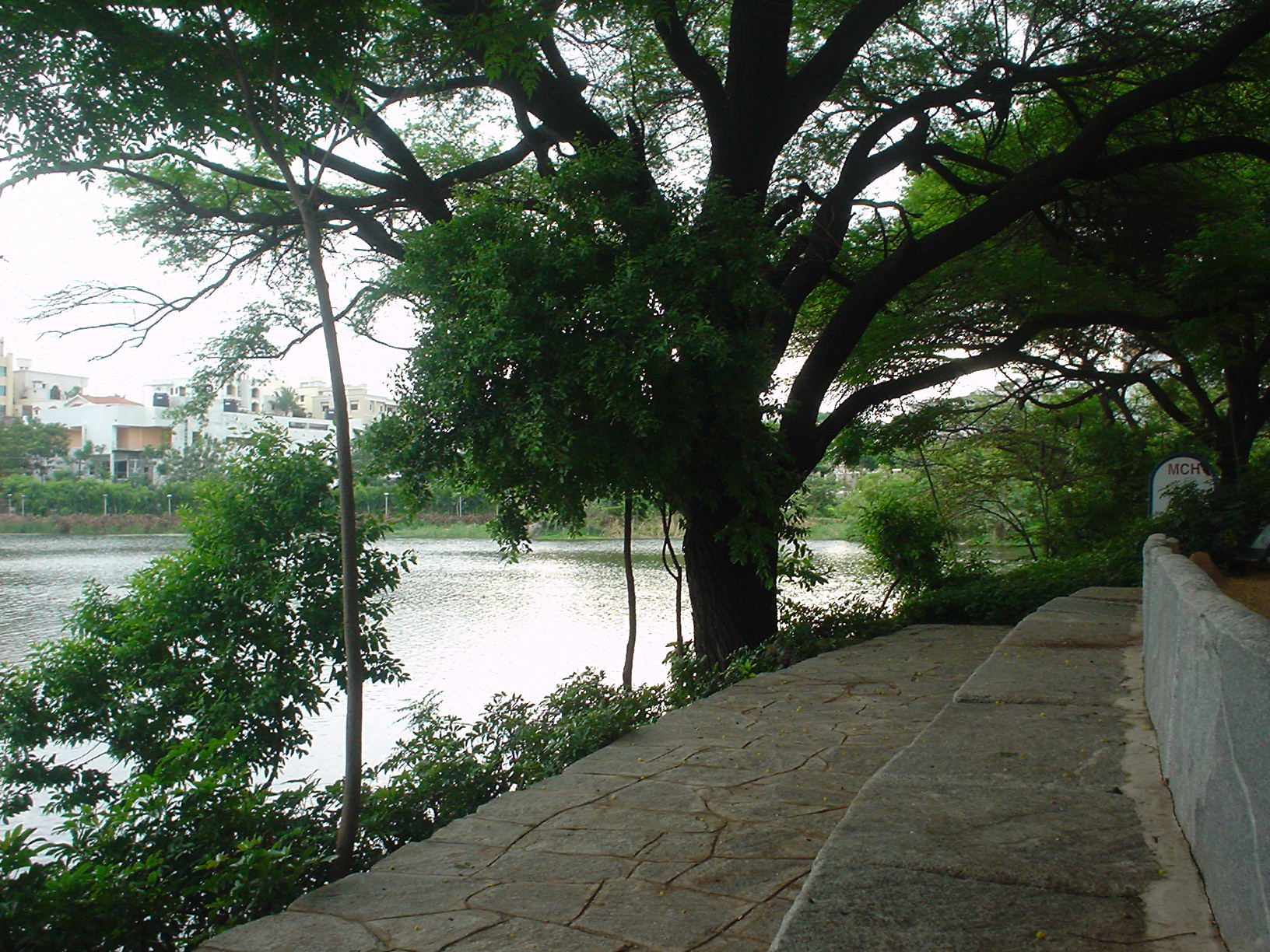 Sitting Place- Lotus Pond